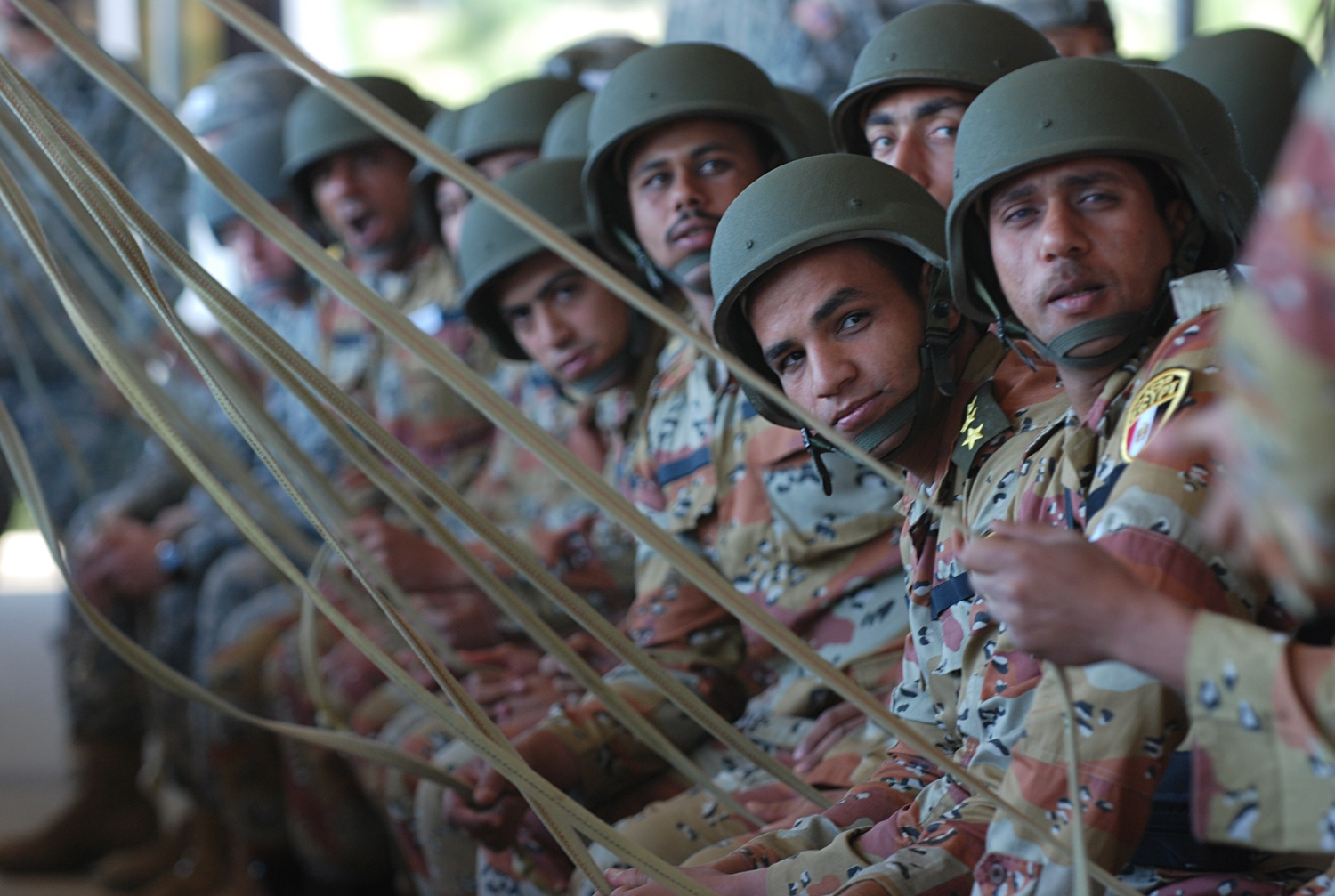 photo by Egyptian and American paratroopers conduct rehearsals at Pope Air Force Base before a "friendship jump" airborne operation featuring airborne forces from five countries, including the U.S. 82nd Airborne Division. The jump was part of the Bright Star Exercise, a joint, multi-national training exercise held at Fort Bragg from Sept. 28 to Monday.